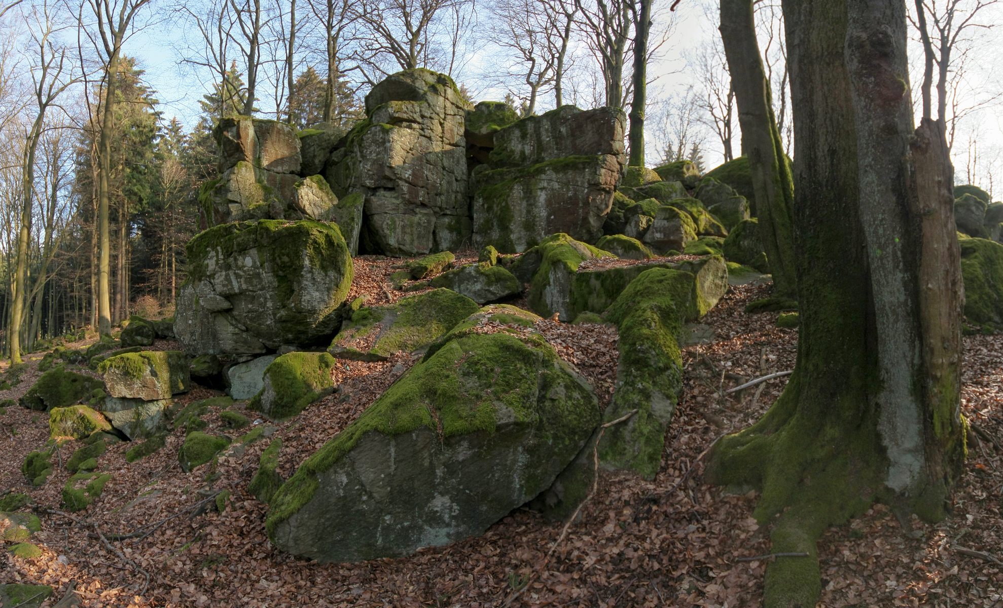 Basalt formations of the natural monument Hochstein near Höhn-Neuhochstein - with 525 m the highest elevation of the Westerburger Land NOTE: This image is a panorama consisting of multiple frames that were merged or stitched in software. As a result, this image necessarily underwent some form of digital manipulation. These manipulations may include blending, blurring, cloning, and color and perspective adjustments. As a result of these adjustments, the image content may be slightly different than reality at the points where multiple images were combined. This manipulation is often required due to lens, perspective, and parallax distortions.